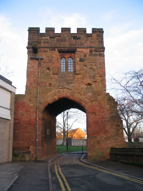 Cook Street Gate, Coventry A grade I listed building, one of two surviving gates of the original twelve on Coventry's city wall[1]. Much of the wall was demolished after the Civil War, but the gates survived to the 18th century when all but the present two were removed. Cook Street gate dates from the 15th century and stands over a road which once led to Harnall. Used as a dwelling house in the 19th century, it was presented to the city in 1913 and restored in 1918 when the crenellations were added. Source: 'A Guide to the Buildings of Coventry', George Demidowicz The narrow road it spans is cut off by the ring road, the wall of which can be seen through the arch, as can the sandstone St Mark's church on Stoney Stanton Road beyond.